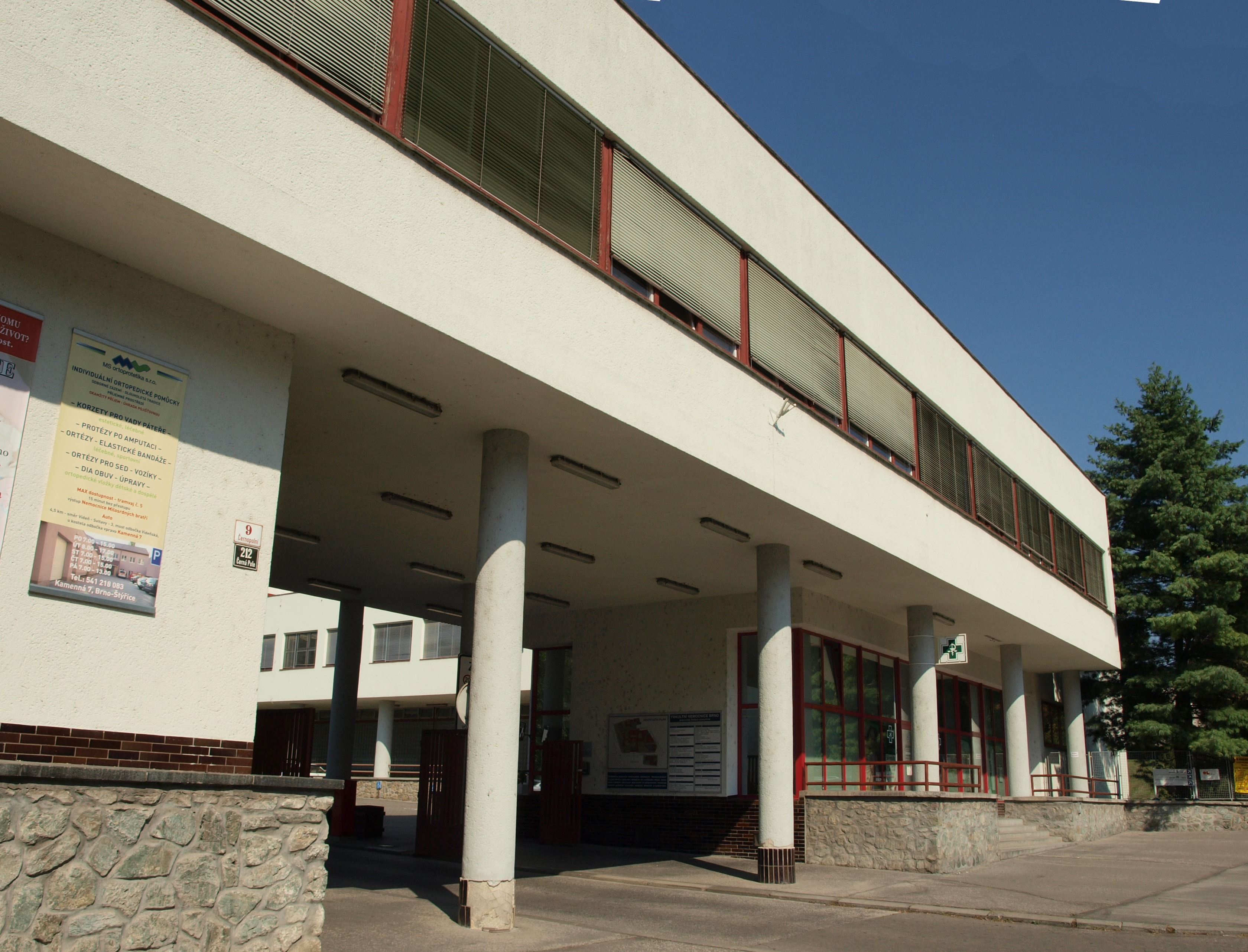 Children hospital, Černopolní street, Brno